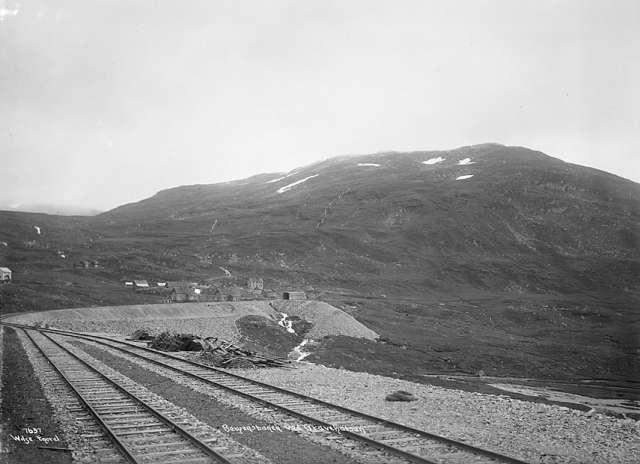 Gravhalsen tunnel, on Bergensbanen in Aurdal, Norway